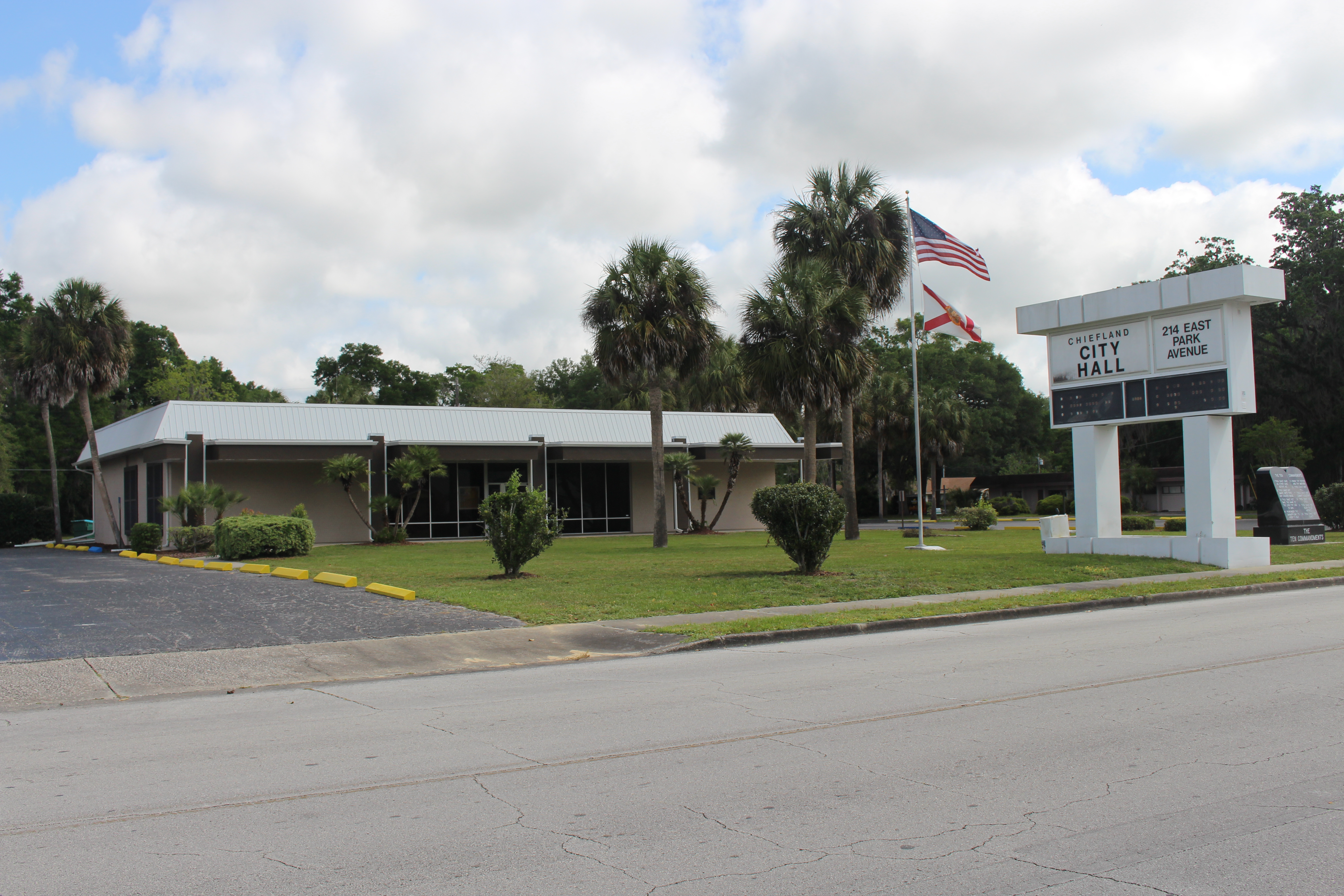 Chiefland City Hall, Chiefland, Levy County, Florida